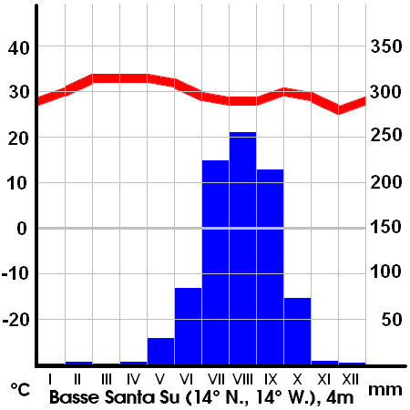 Climate diagram (in German) of Basse Santa Su in the Gambia